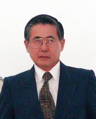 Alberto Fujimori, the President of Peru, emerges from his aircraft moments after arriving in Prince George's County, Maryland, in October 1998.